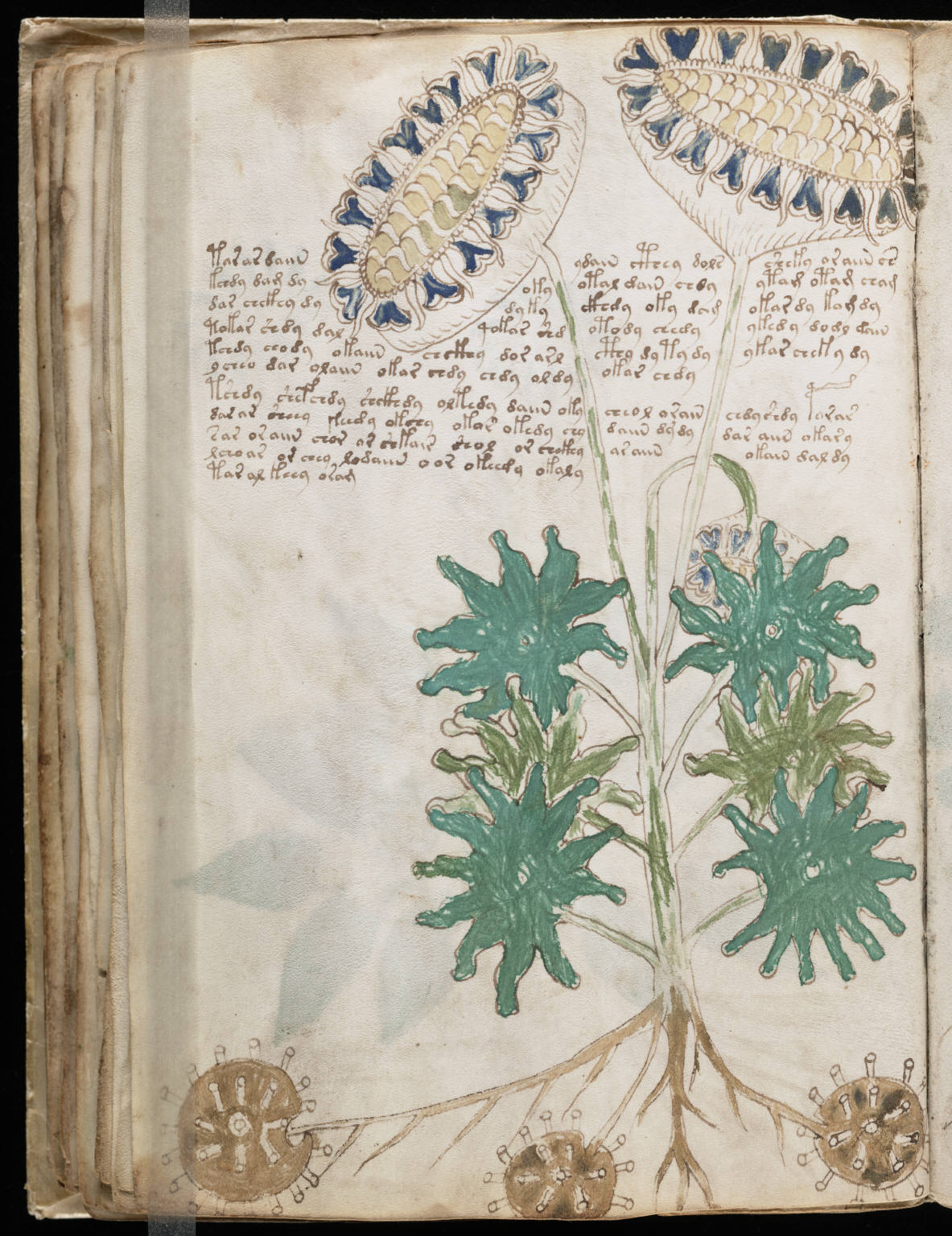 A page from the mysterious Voynich manuscript, which is undeciphered to this day.